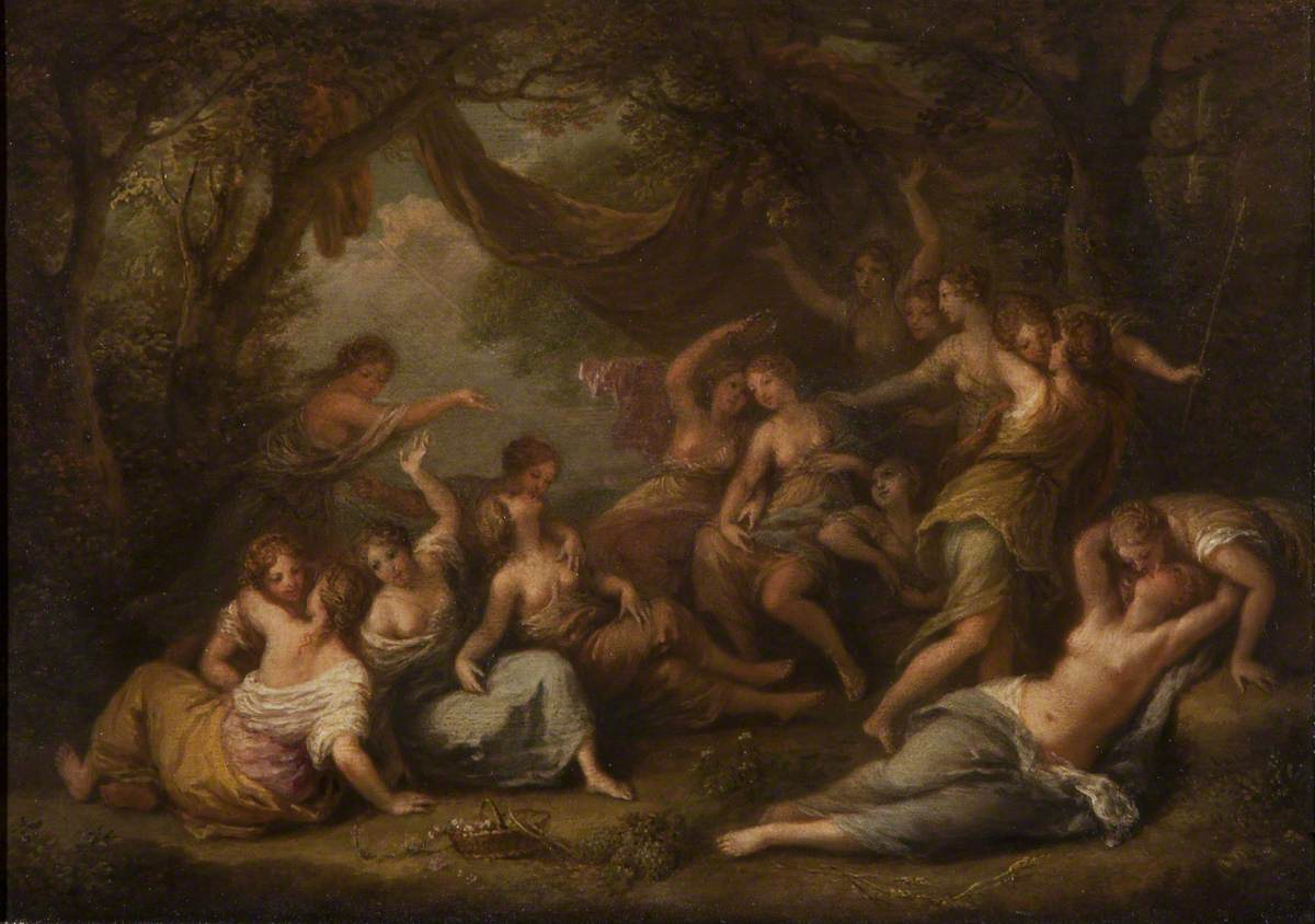 Zuccarelli, Francesco: Festa Floralia, National Trust, Kedleston Hall and Eastern Museum; Oil on panel.